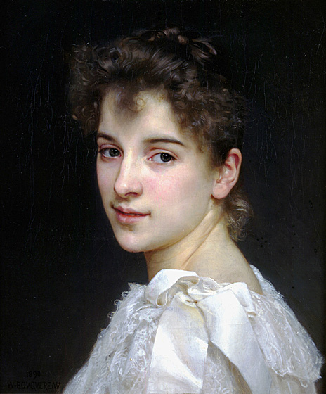 Gabrielle Cot, daughter of Pierre Auguste Cot